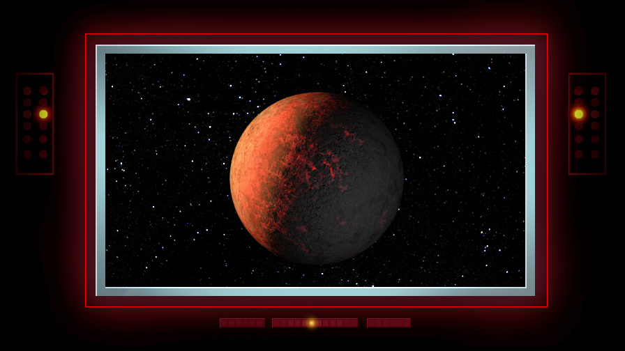 Star Fleet-style monitor showing a "strange new world" against a static starfield. Viewscreen dimensions roughly proportional to the monitors shown in Star Trek TOS.